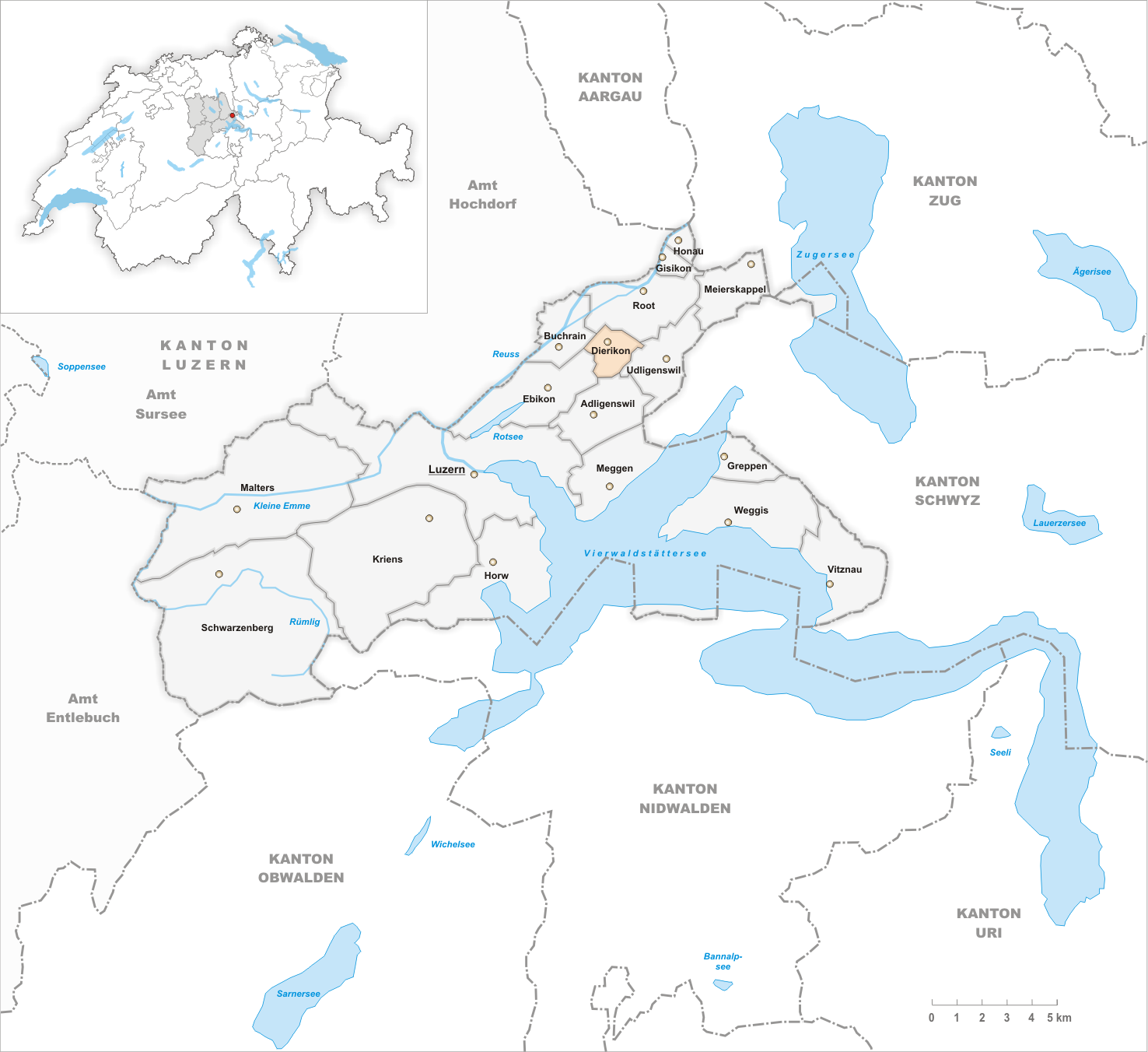 Municipality Dierikon